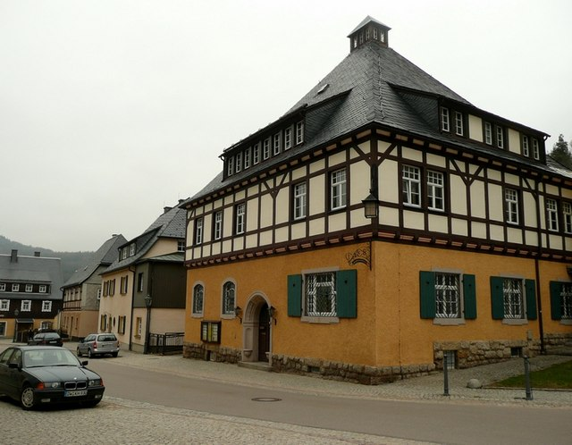 This image shows the townhall in Geising.